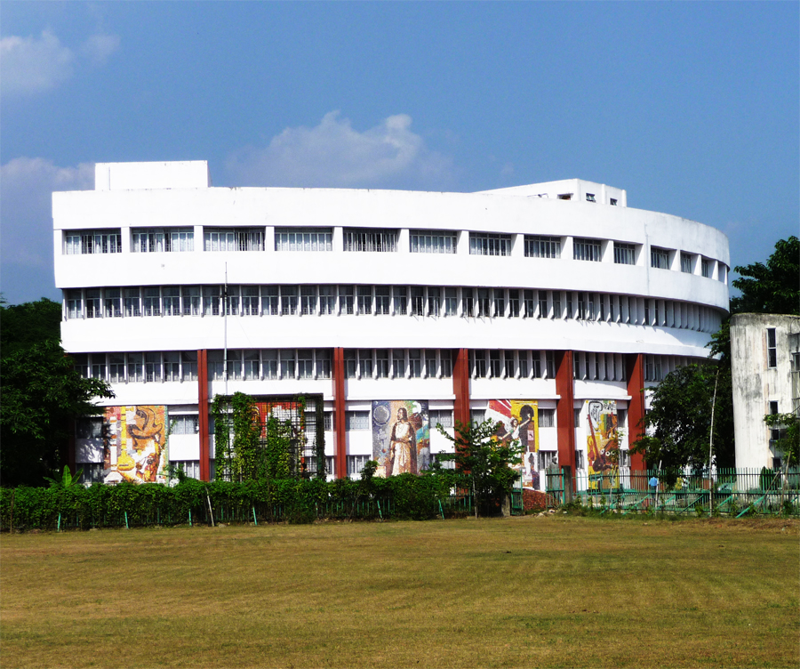 Fine Arts Faculty Building of Rabindra Bharati University at Emerald Bower Campus, 56A, B.T. Road, Kolkata 700050